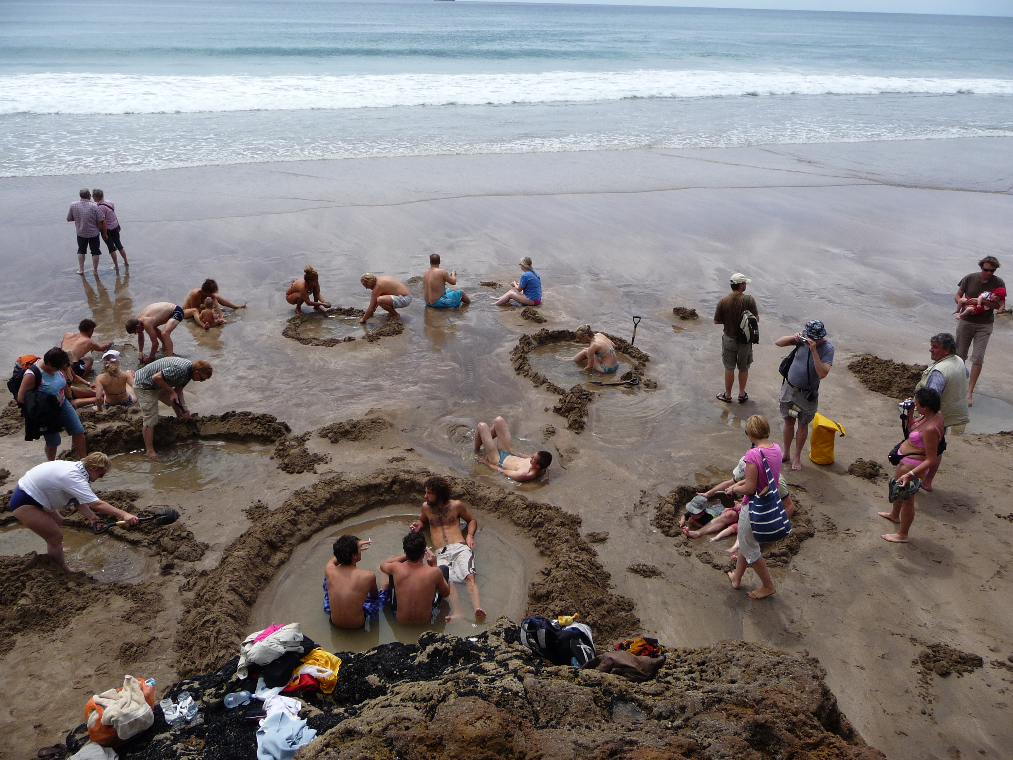 Excavations into the sand on Hot Water Beach, New Zealand.